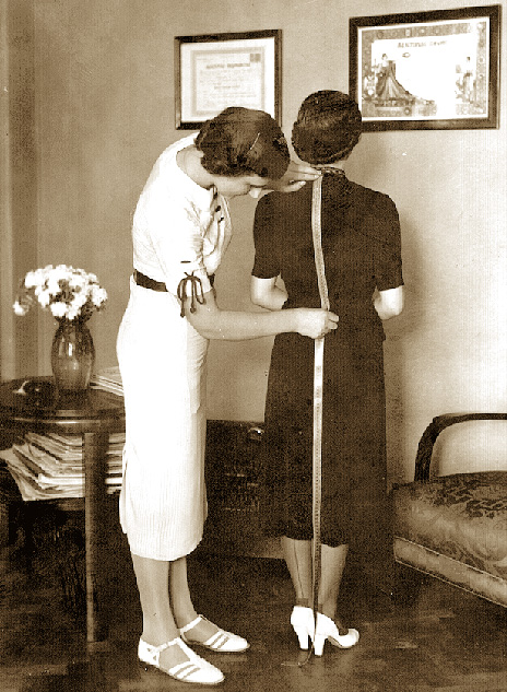 A tailor fitting a customer (Belgrade, 1937)